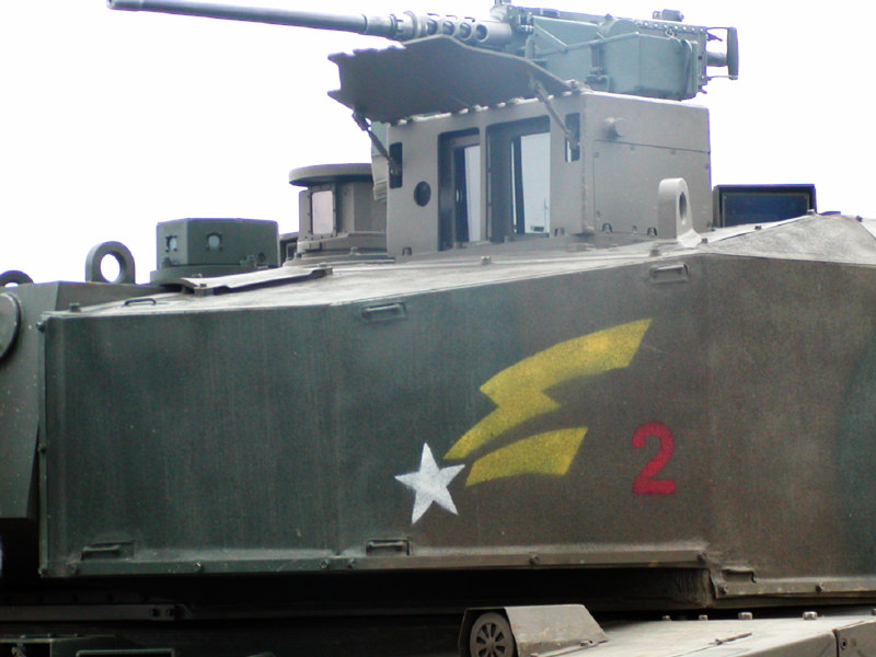 Type90 MBT, JGSDF Armour Training Unit. This picture taken by Kurokishi.